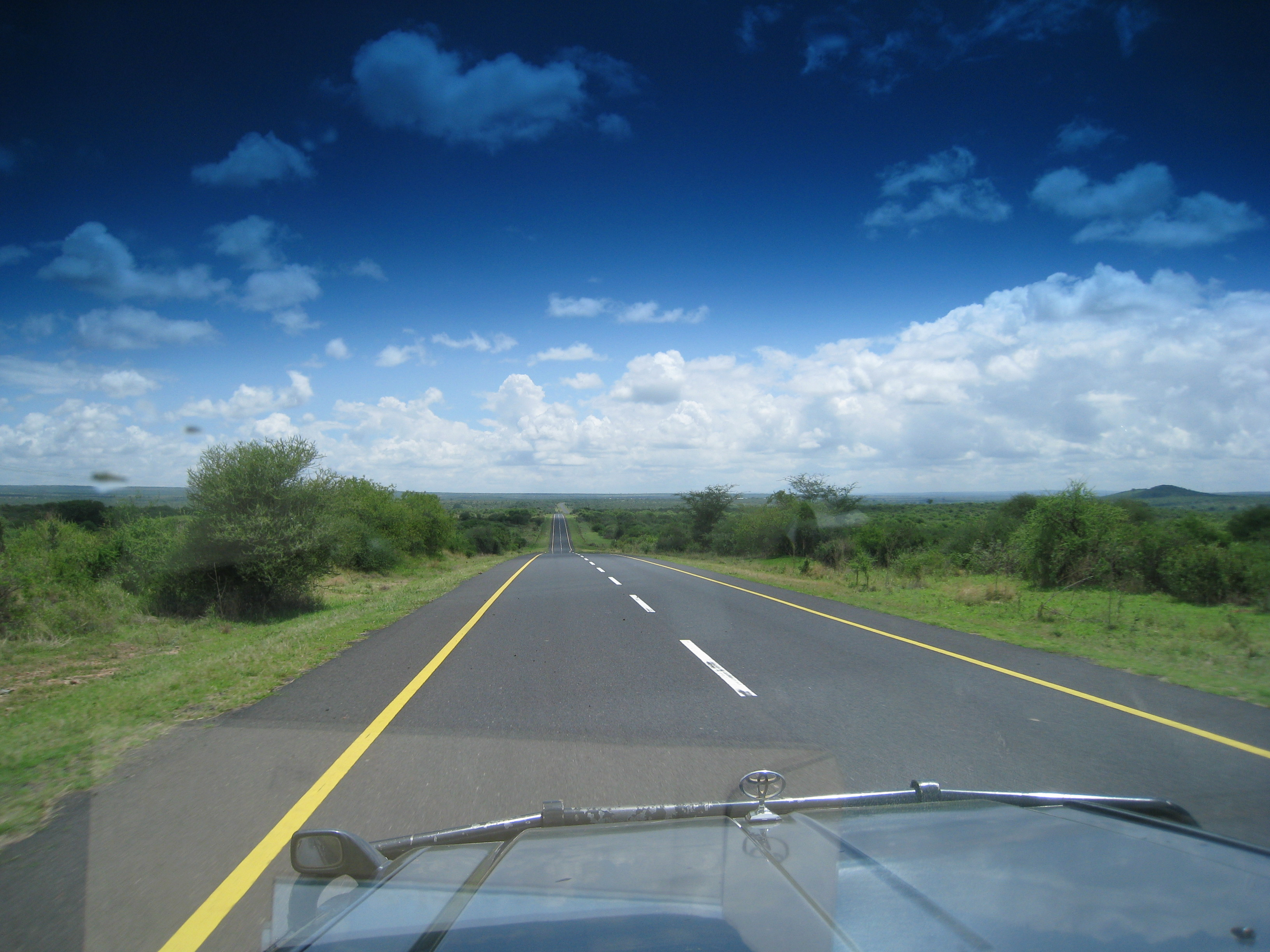 Trunk road heading towards Ngorongoro, Arusha Region, Tanzania